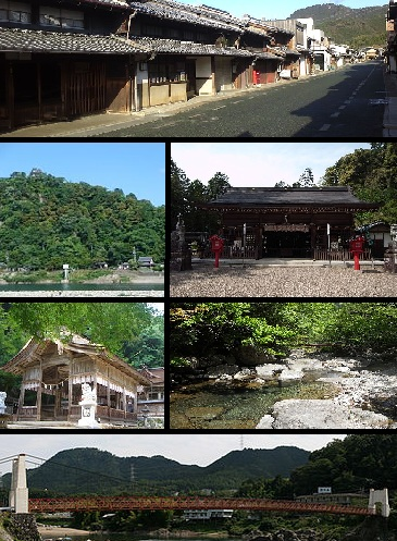 Mino montage